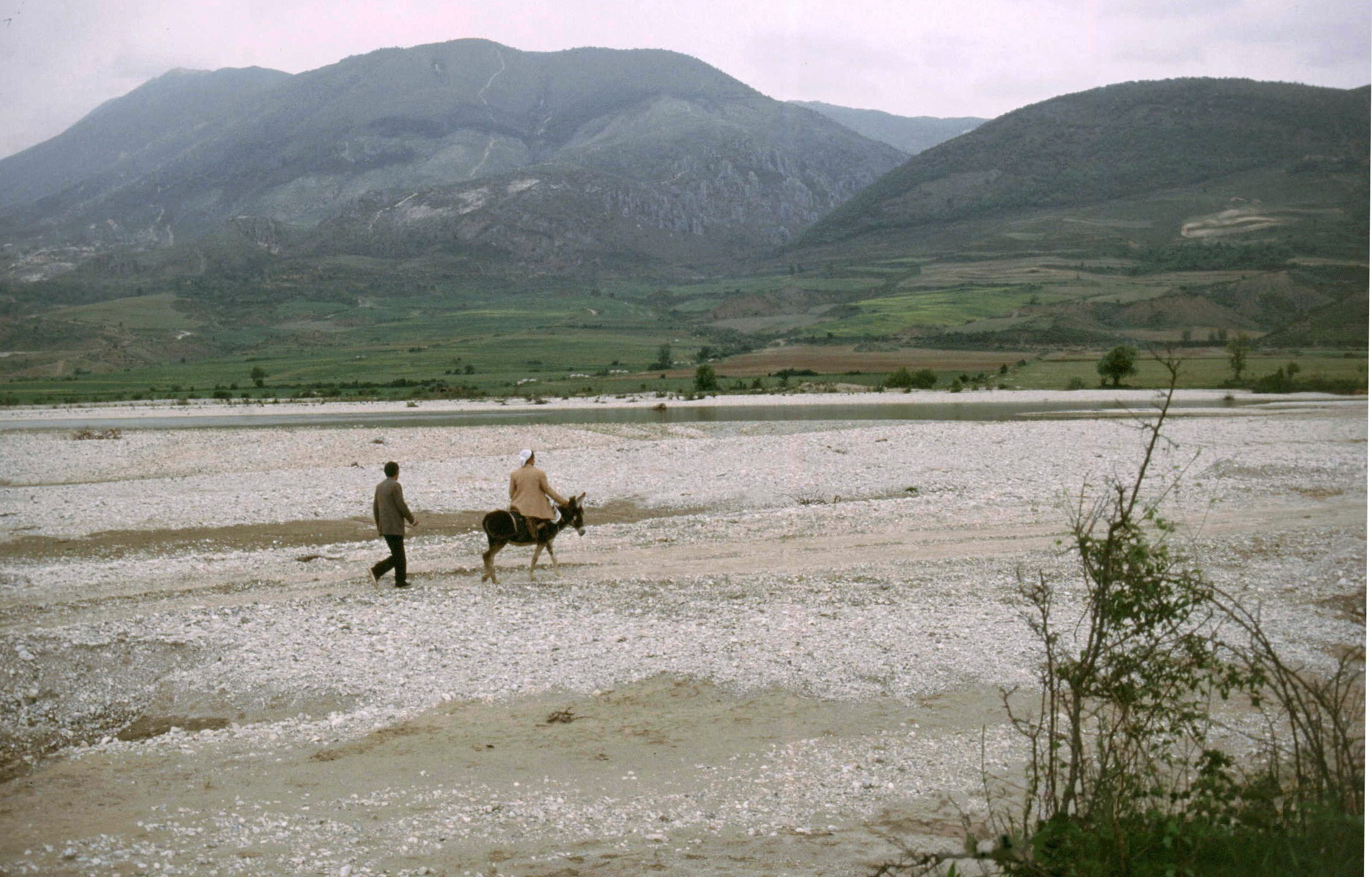 Valley of the Drinos River southeast of Gjirokastër. Picture taken in May, 1991